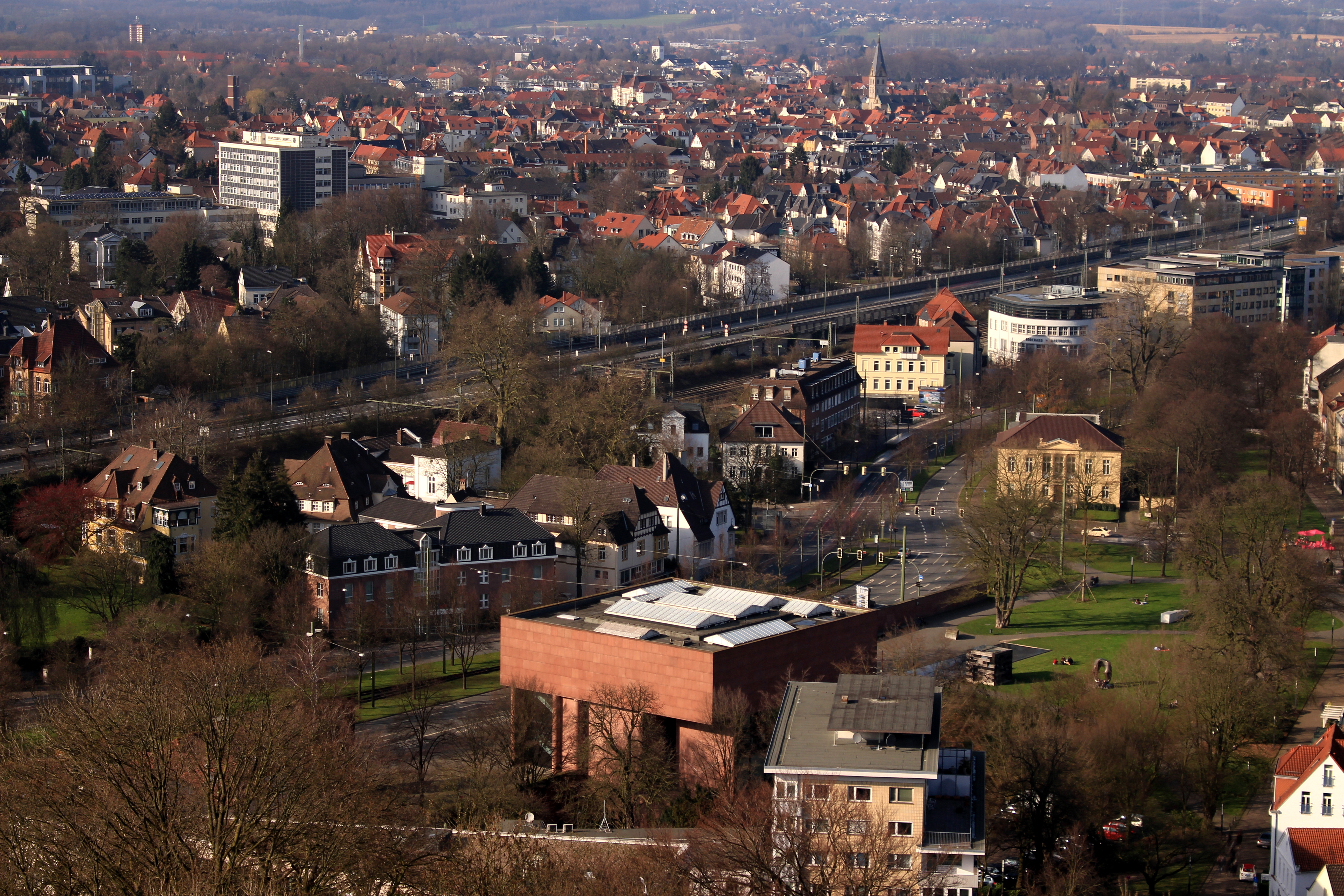 Kunsthalle Bielefeld from the perspective of the tower of Sparrenberg Castle